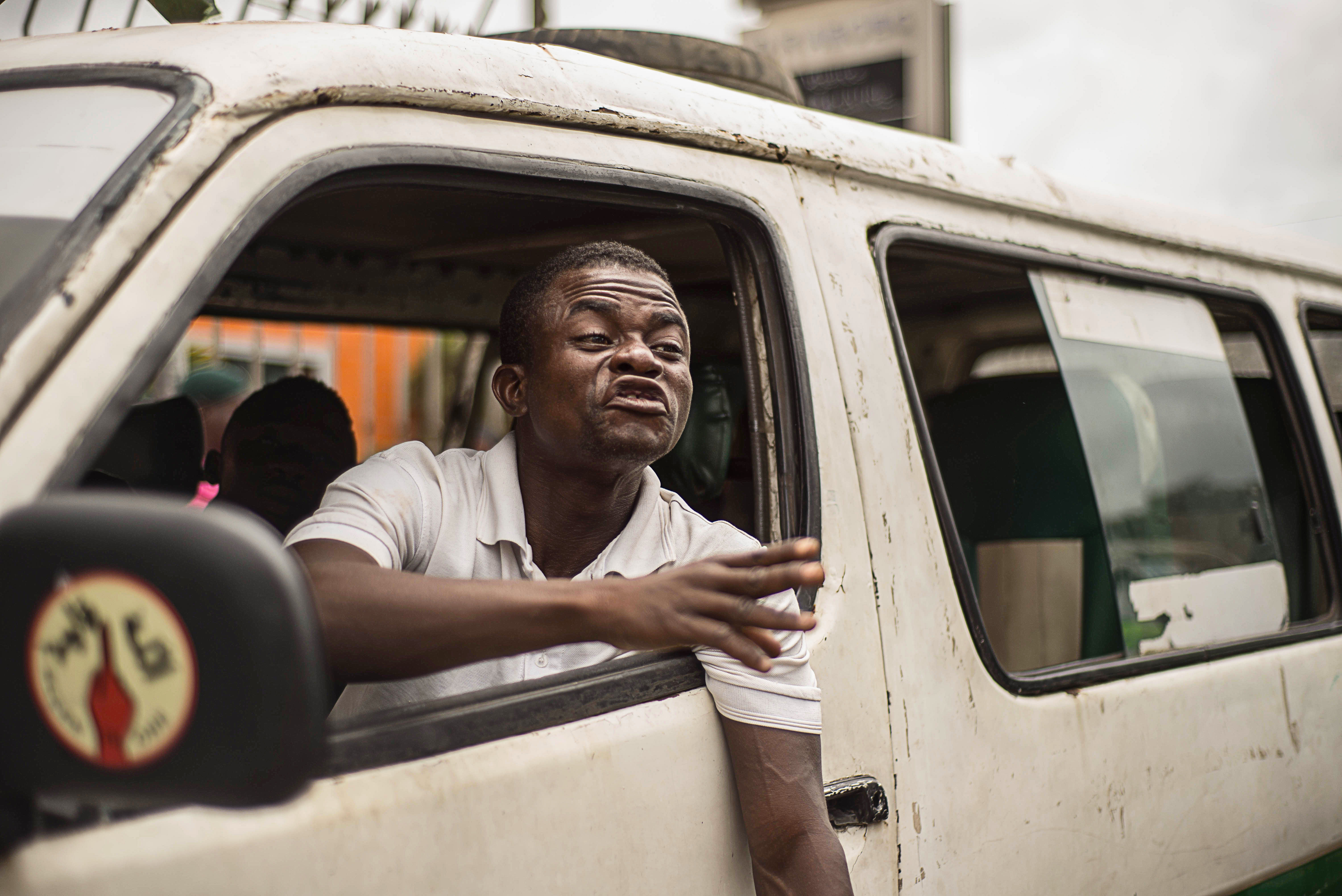 Le transporteur d'un mini - car qui faisant appel à des clients This is an image with the theme "Africa on the Move or Transport" from: Ivory Coast